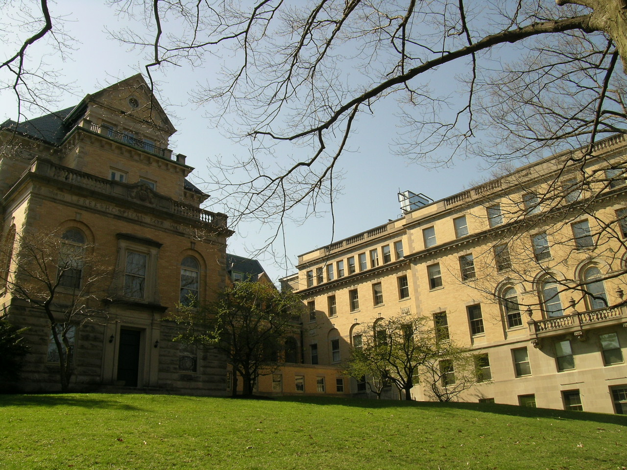 Free Hospital for Women across the street from Olmsted Park in Boston, Massachusetts. April 2008 photo by John Stephen Dwyer.